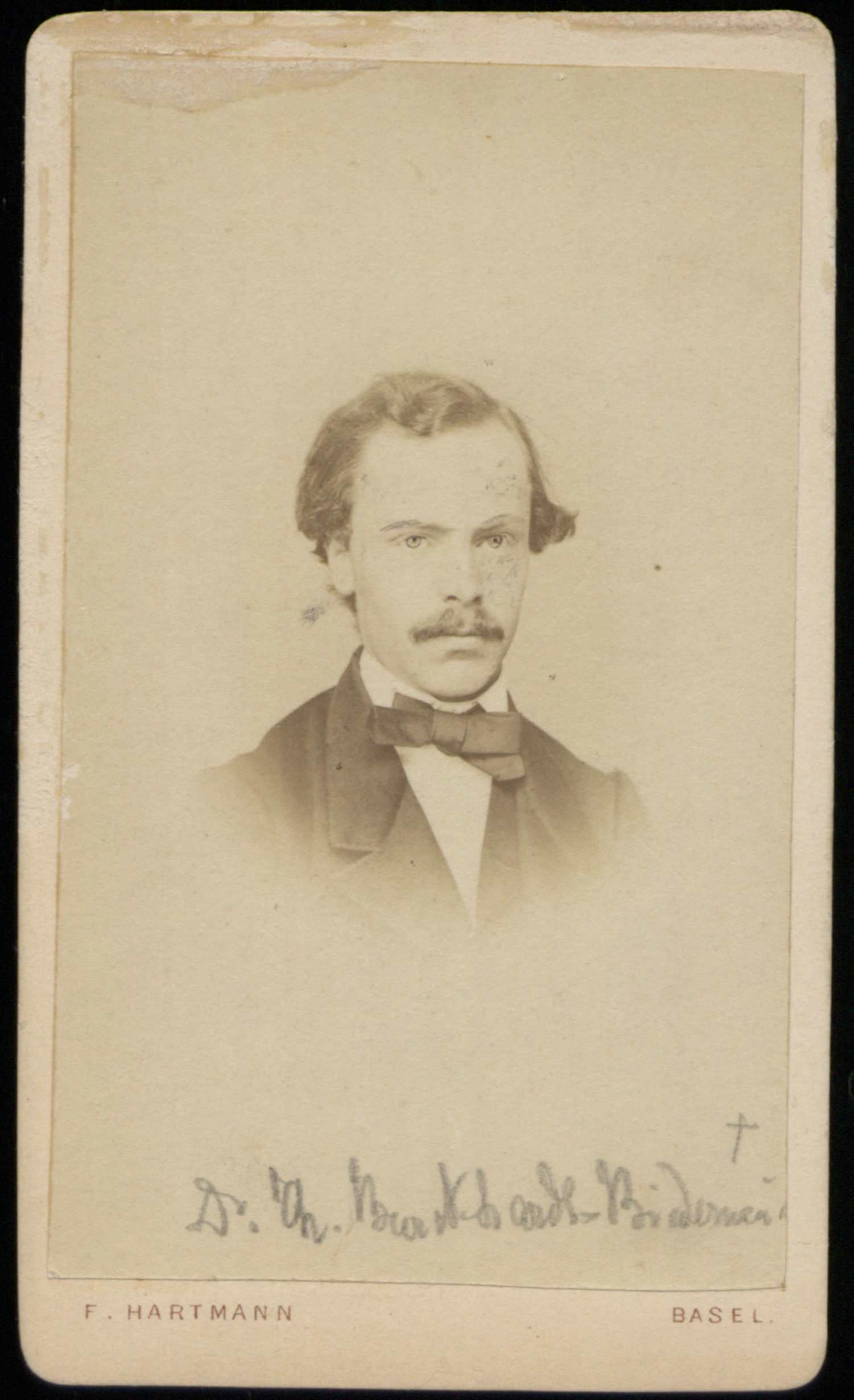 Portrait of Theophil Burckhardt-Biedermann (1840-1914), photo